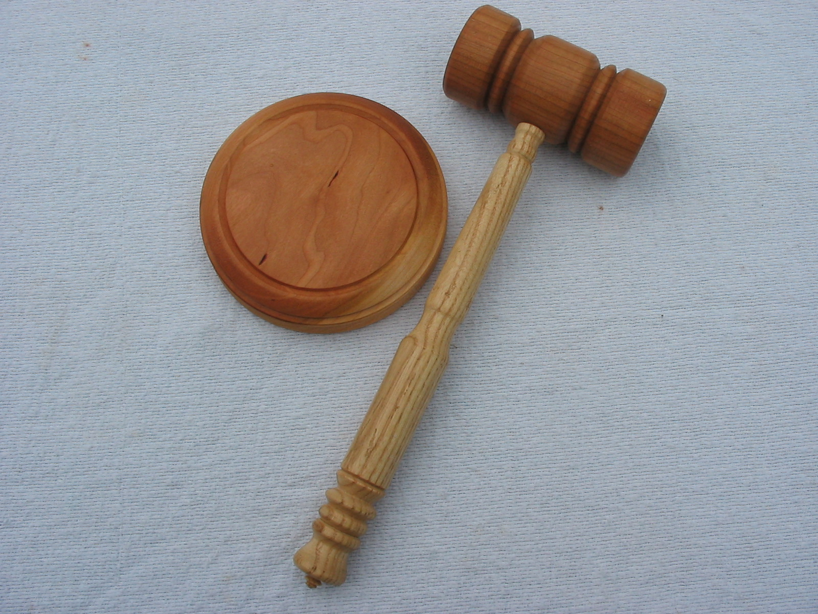 Gavel & Stryker, made from Cherry & Ash, sold to Whitney Hoffman.